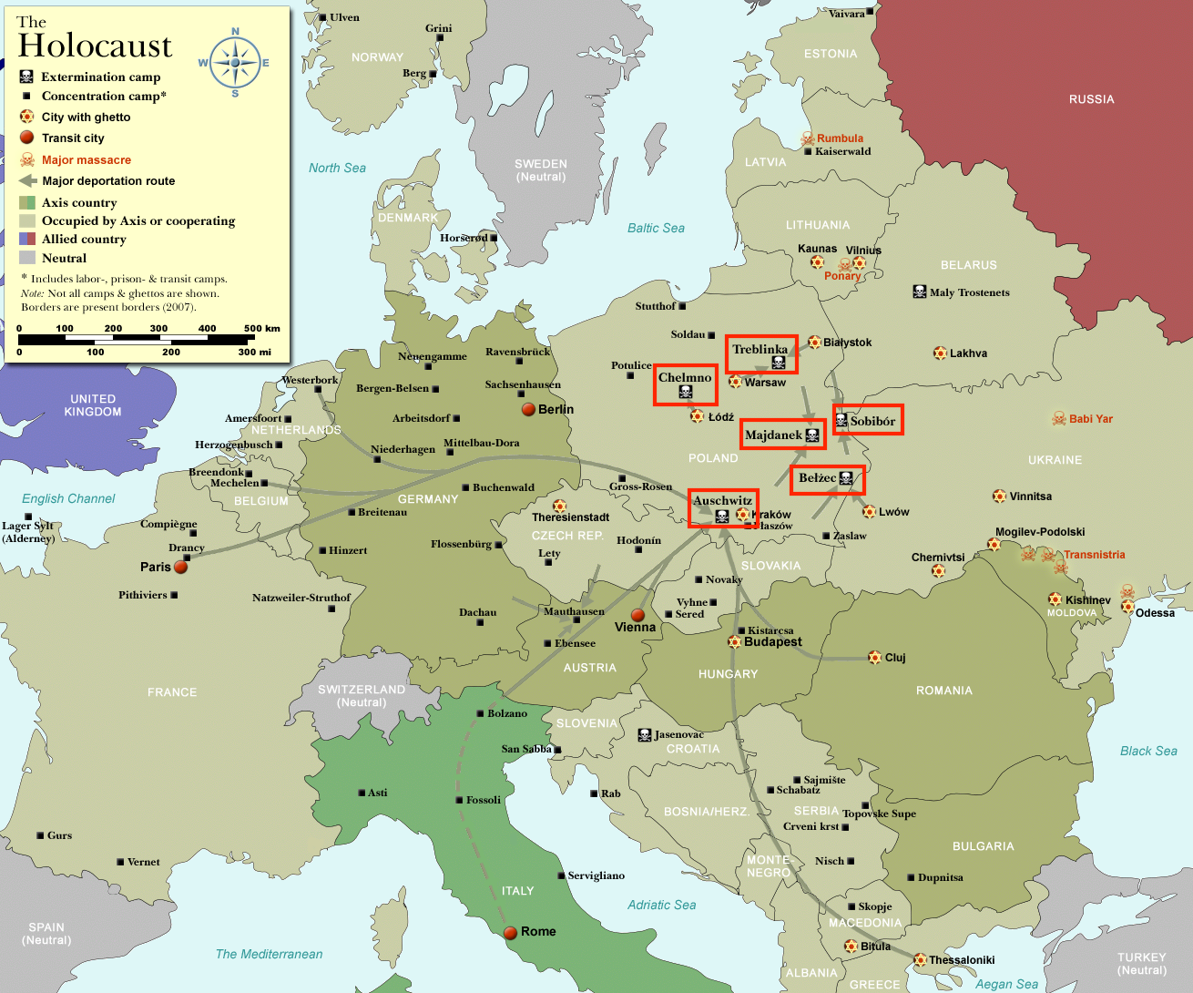 The Holocaust in Europe during World War II (1939–1945). This map shows the extermination camps (highlighted in red in occupied Poland), most major concentration camps, labor camps, prison camps, ghettos, major deportation routes, and major massacre sites. Borders are accurate as of 2007.